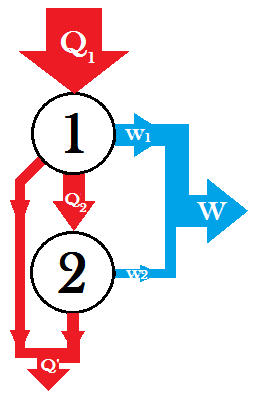 Diagram of series working thermal machines